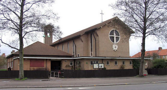 St Alphege, Hertford Road, Edmonton, N9, near to Ponders End, Enfield, Great Britain. Built 1958